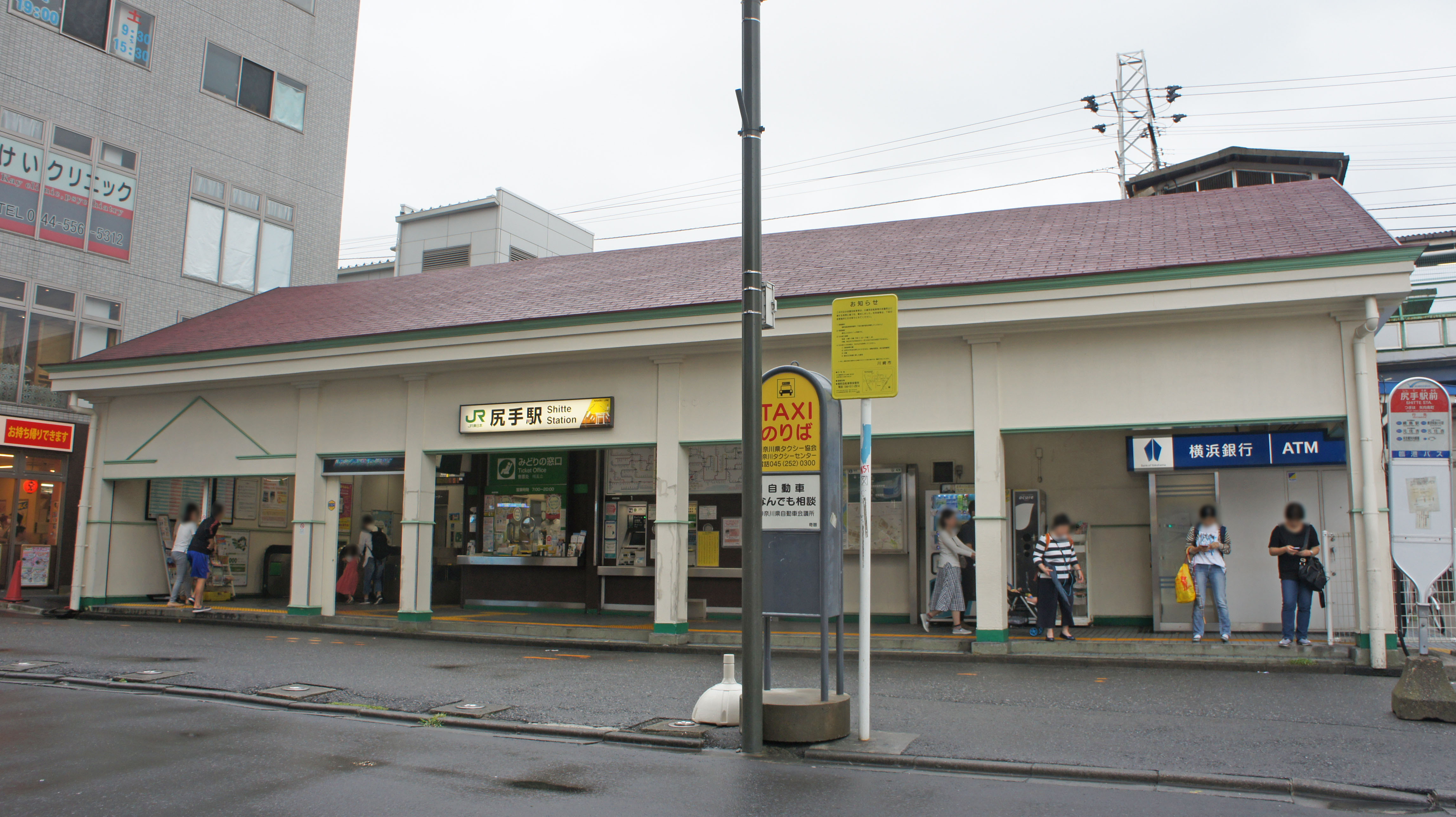 Station building of JR Nambu-Line Shitte Station